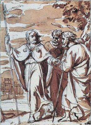 appearance of Jesus to Cleopa and Luke